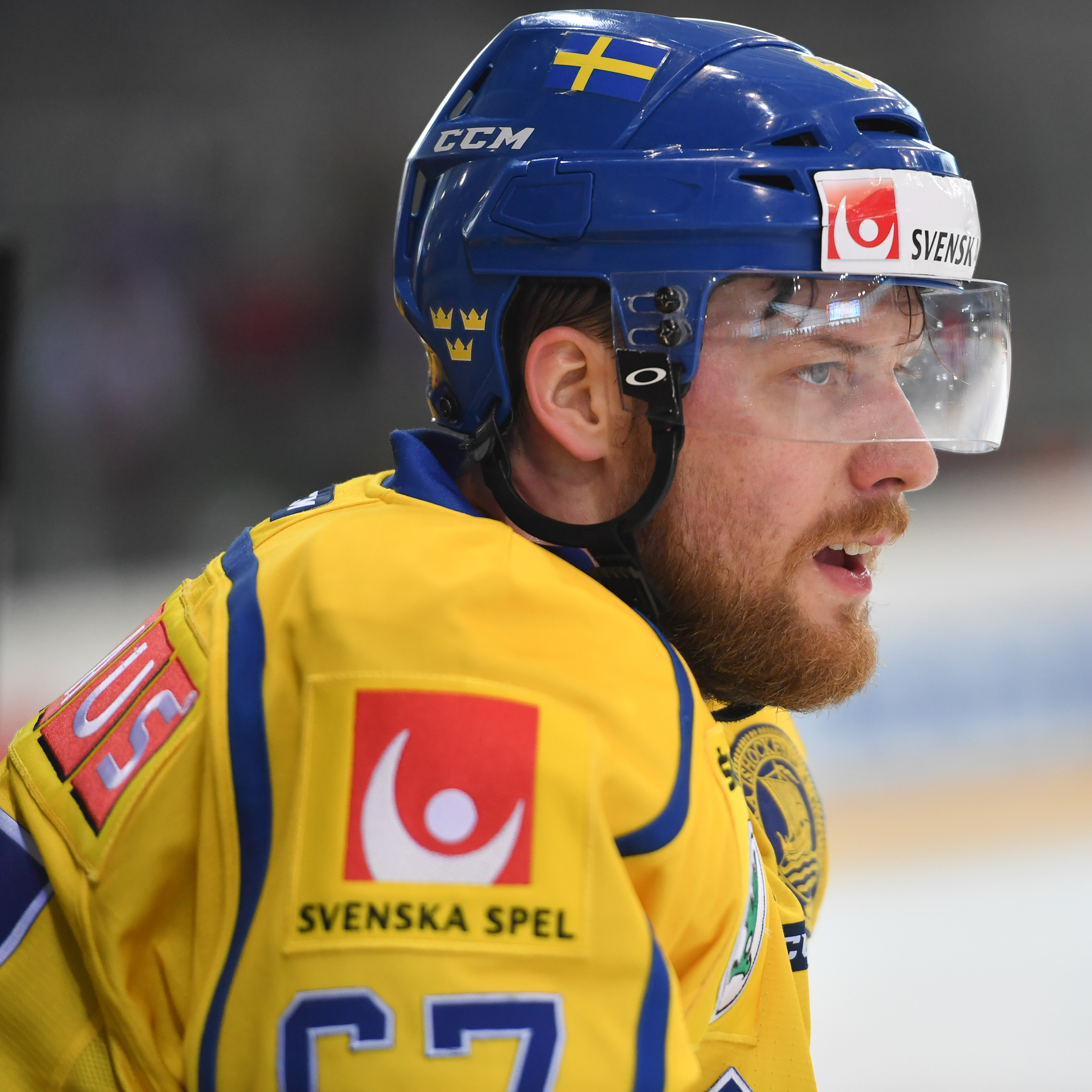 6/4/2017, Vienna, Austria, Sport, Ice Hockey, Friendly match Austria vs Sweden.